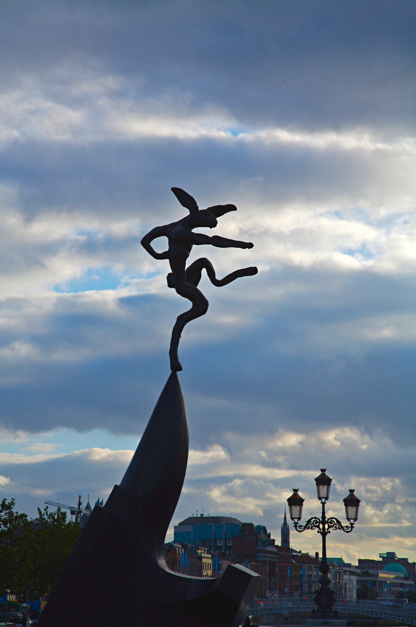 GIANT HARES TO TAKE OVER DUBLIN’S O’CONNELL STREET *An Unlikely alliance (Cougar and Elephant) – Outside McDonalds *The Thinker on Rock – Opposite Easons *Acrobats – Site of Anna Livia Central median *Hare and Bell Site of Anna Livia – Central median *Nijinsky – South of Father Matthew Statue Central Median *Drummer – Nearly opposite old Aer Lingus offices, between trees on final median For further information contact Rachel Sherry at Grayling on 087 6622111 or Dublin City Press Office on 086 8150010